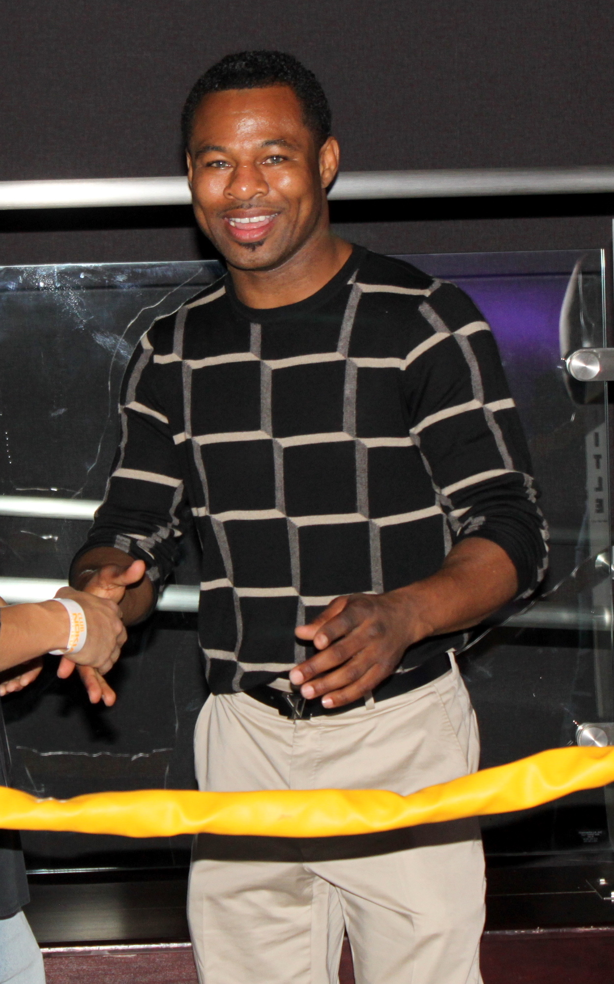 Shane Mosley at Fight Night Club event at the Club Nokia in Los Angeles, California, United States.